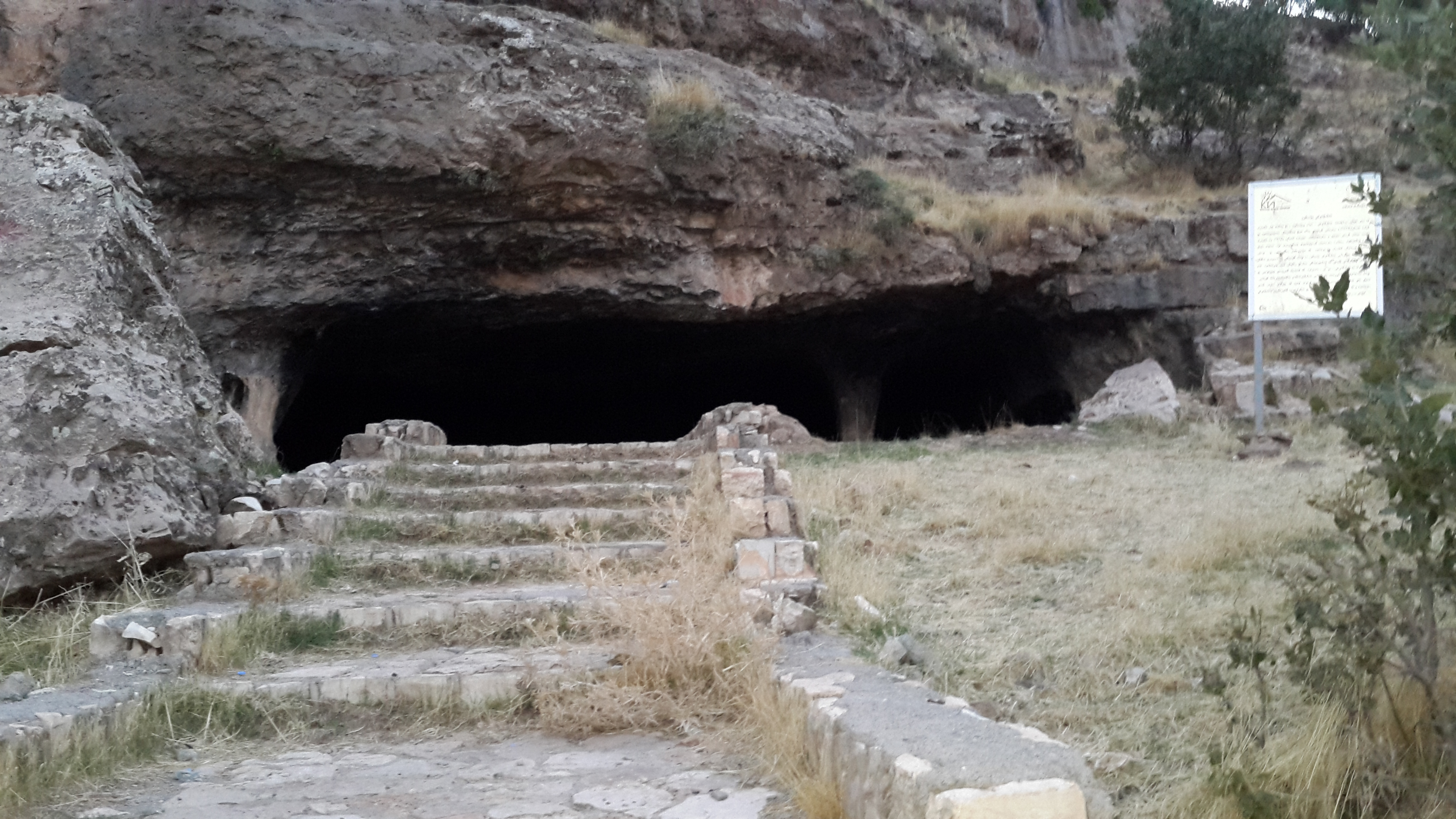 Bestun Cave from outside